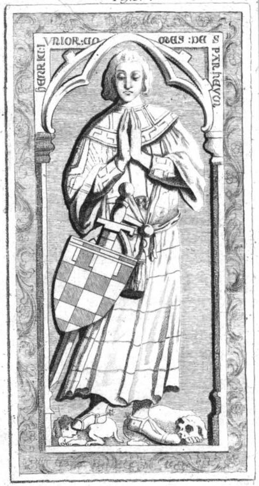 Henricus Junior Comes de Spanheym. Heinrich II, Count of Sponheim-Starkenburg.